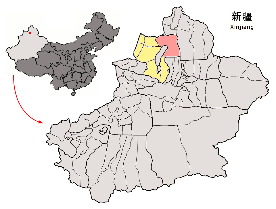 Location of Hoboksar County (pink) and Tacheng Prefecture (yellow) within Xinjiang autonomous region of China Map drawn in september 2007 using various sources, mainly : Xinjiang Uygur autonomous region administrative regions GIS data: 1:1M, County level, 1990 Xinjiang Counties map from